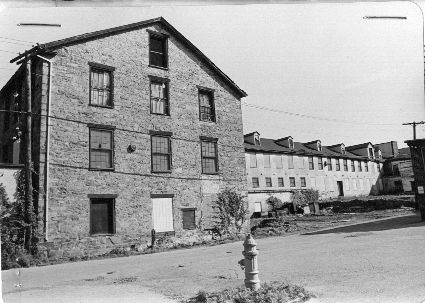 Adriatic Mills, Worcester, Massachusetts. These buildings have been demolished.